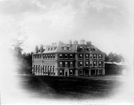 Hall Barn, Beaconsfield, Buckinghamshire, 1900. The home was built for the English poet Edmund Waller, from a family long established at Buckinghamshire and Kent.[1] Image courtersy of .